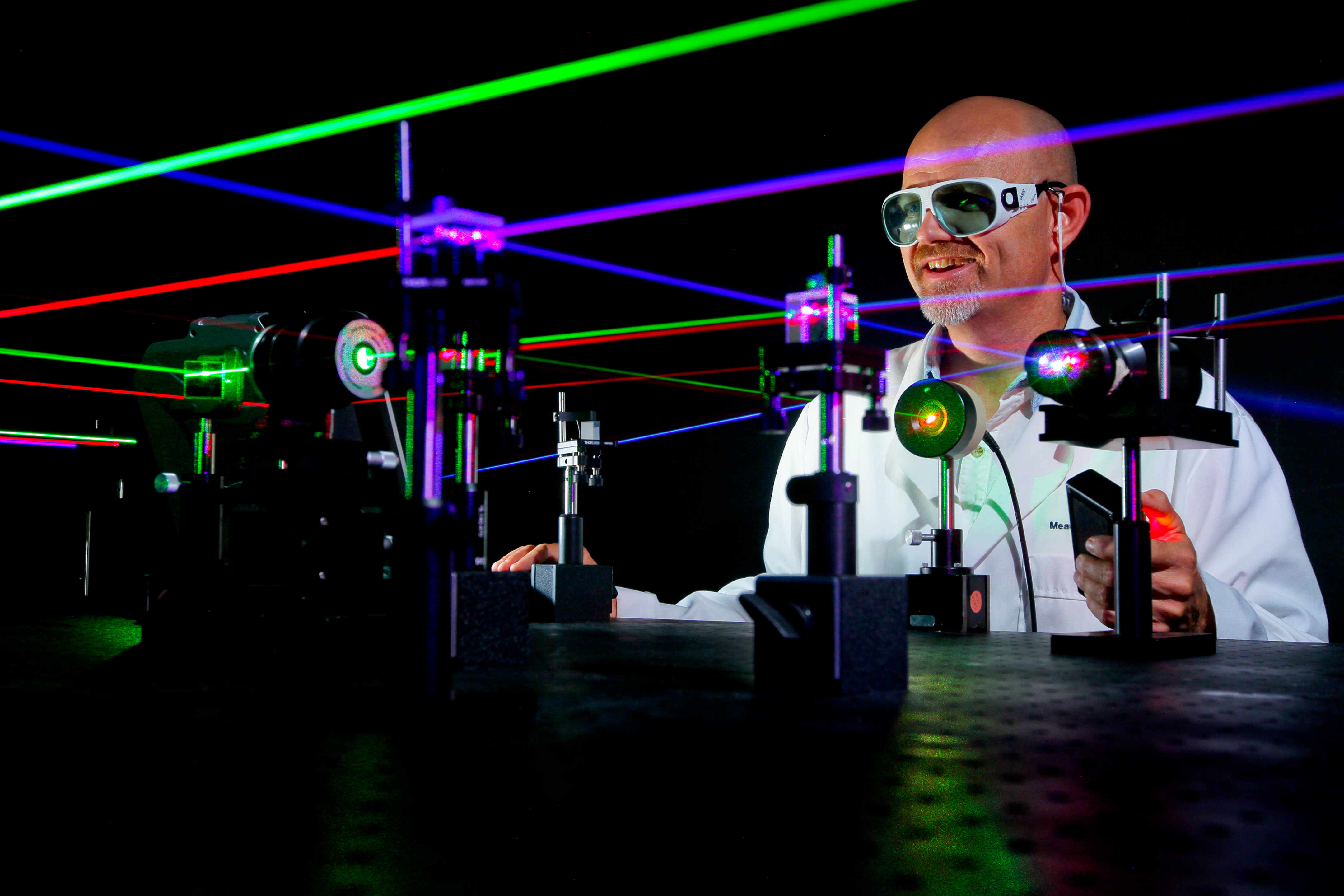 NORCO, Calif. (Aug. 29, 2012) Daniel King, a microwave/electro-optic (MS32) electronics engineer at Naval Surface Warfare Center (NSWC), Corona Division, uses visible lasers to align various optical components. Under the Navy Metrology Research and Development Program, NSWC Corona's E-O Group has developed and patented two calibration standards for support of laser designator and rangefinder test sets. (U.S. Navy photo by Greg Vojtko/Released) 120829-N-HW977-040 Join the conversation navylive.dodlive.mil